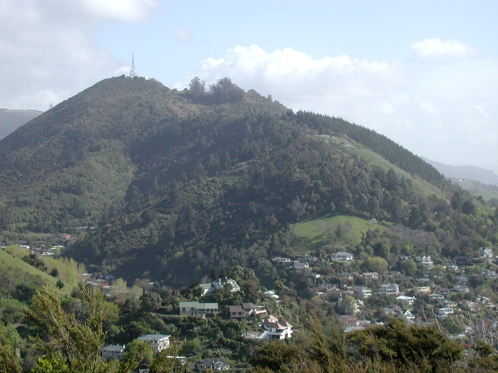 The Grampians viewed from Botanical Hill east of Nelson